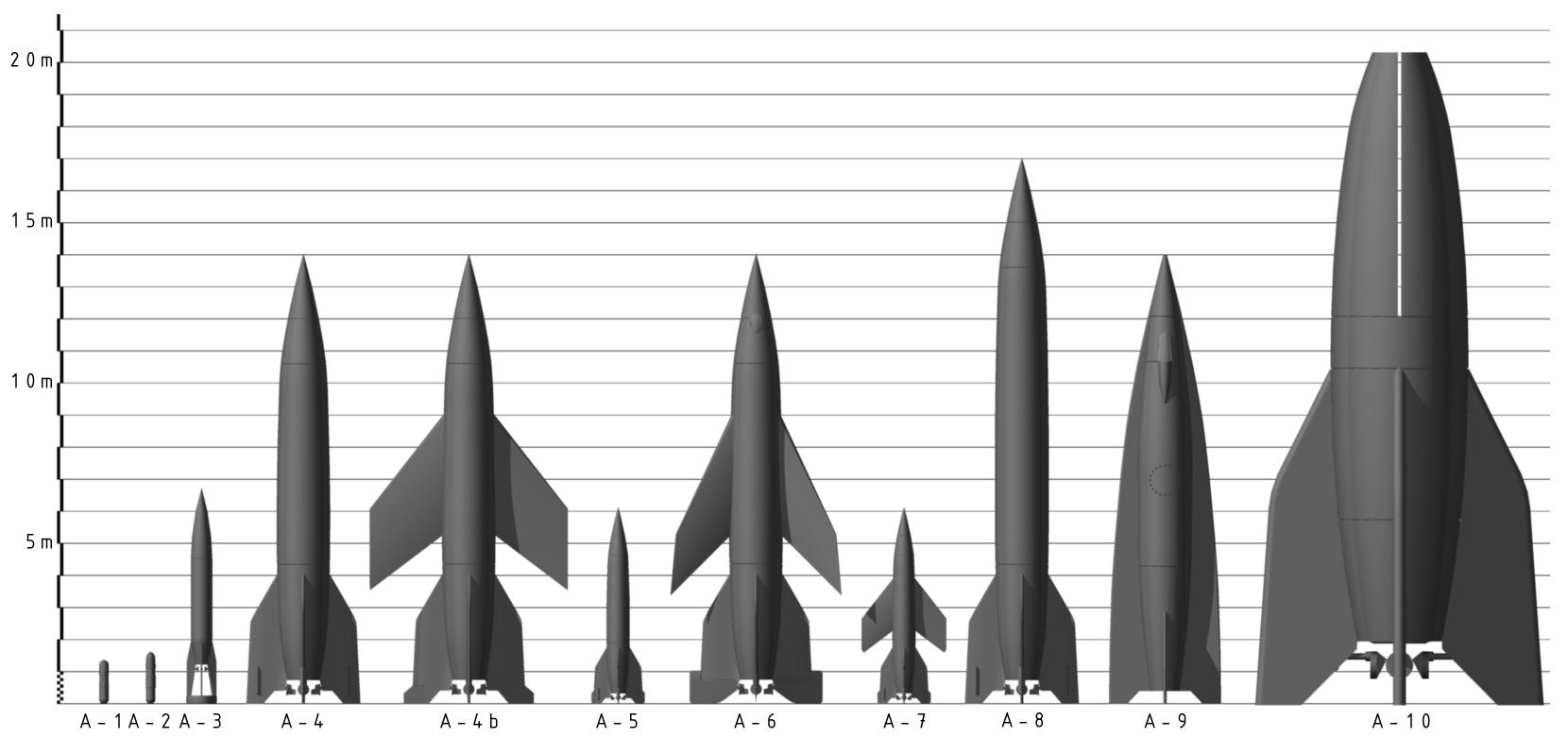 Comparison of "Aggregate" rockets.